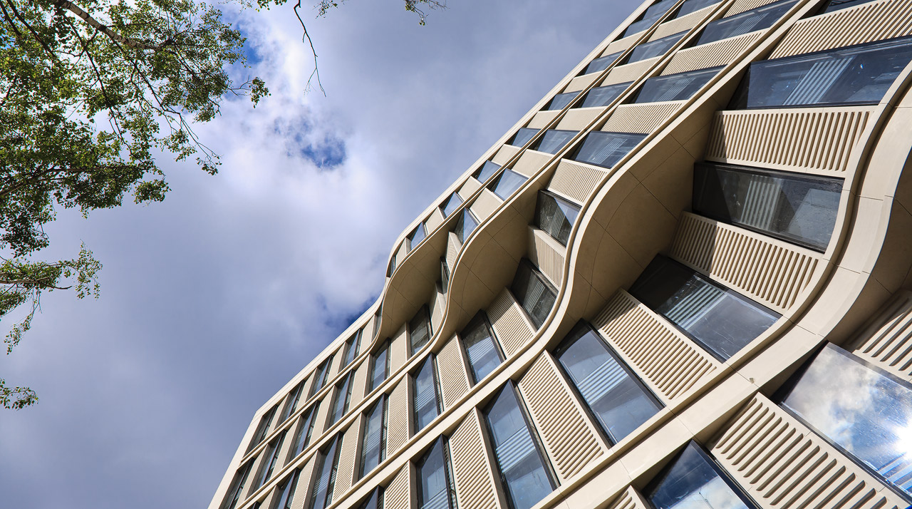 Company Novatek's office building